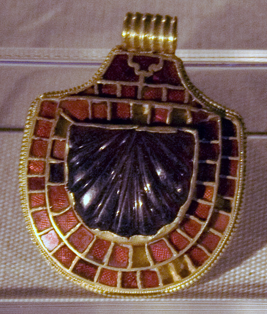 Jewelled piece from the Street House Anglo-Saxon cemetery (grave 42) near Loftus, North Yorkshire